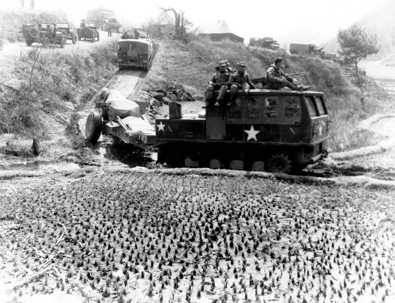 SC364803 - Tractors of the 196th Field Artillery, U.S. Eighth Army, pull 155-mm guns through a detour near the town of Tari-Gol, Korea, in their advance towards the 38th Parallel.